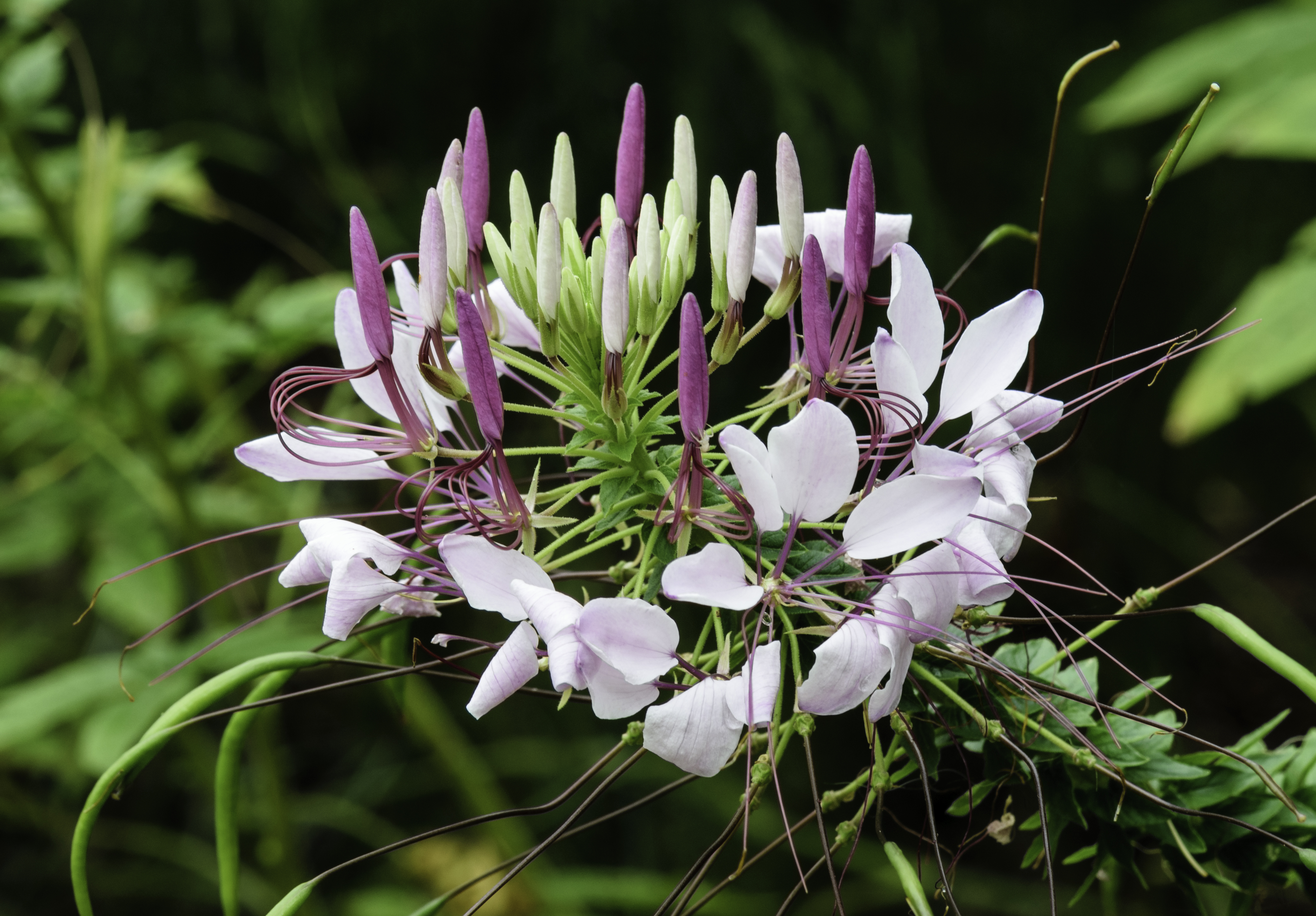 Cleome hassleriana "White Pink Spider Flower" at the Butterfly Garden at Norfolk Botanical Garden, Norfolk, Virginia.